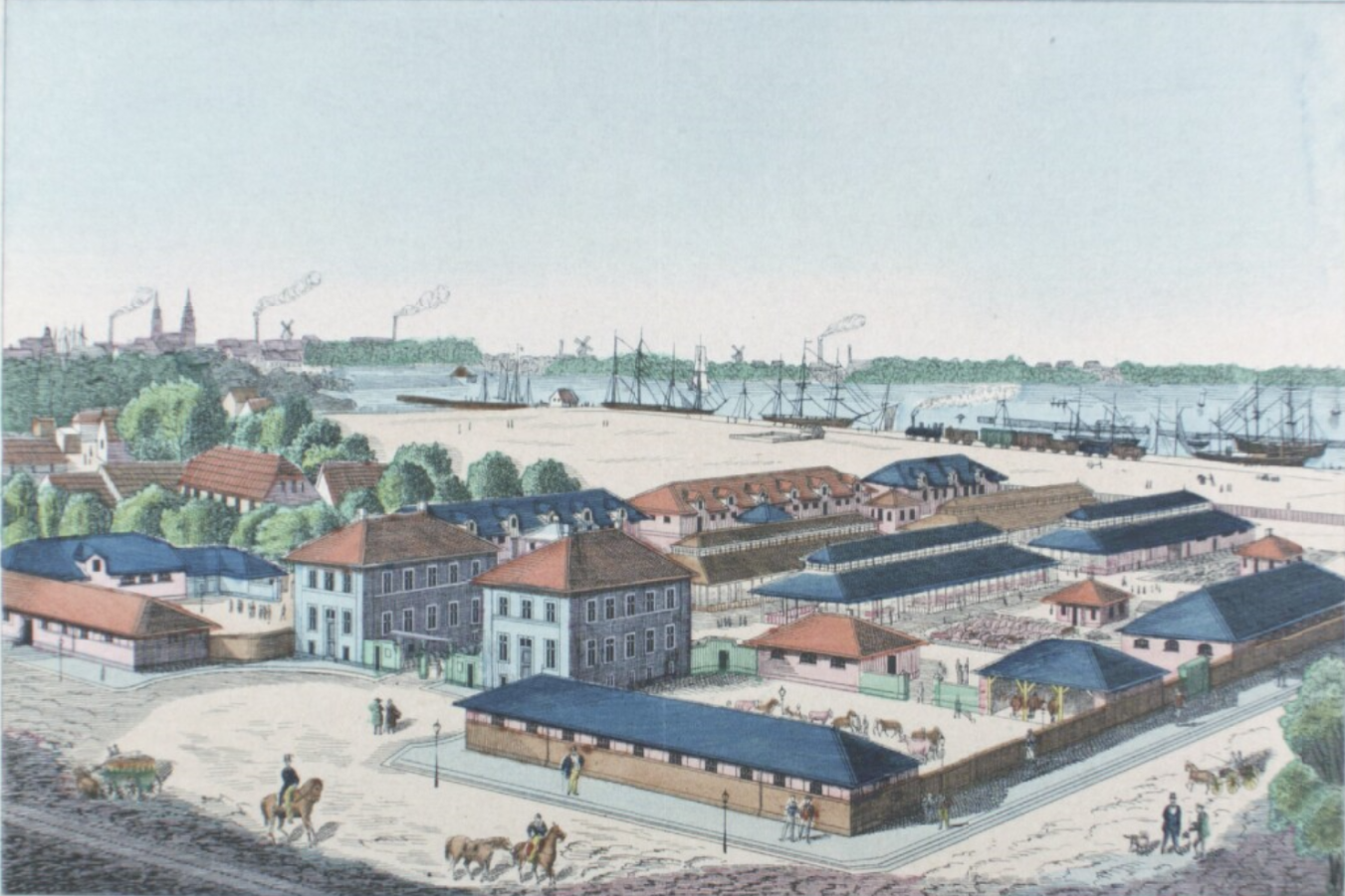 Copenhagen's new cattle market in Vesterbro, Copenhagen, Denmark